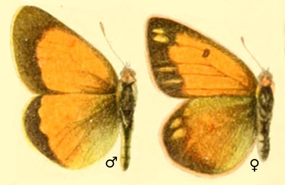 Colias meadii, illustrations of mounted specimens